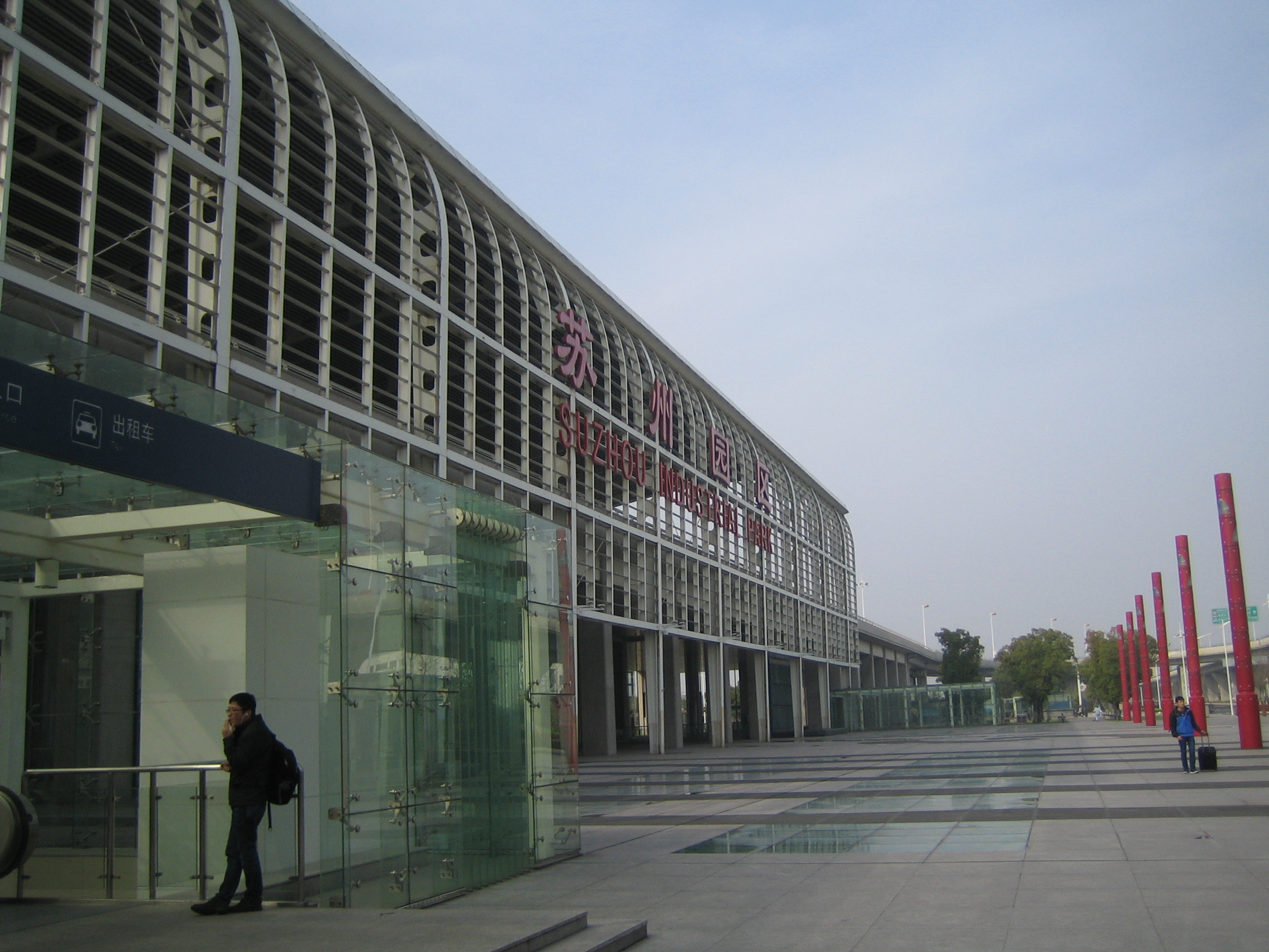 Suzhou Industrial Park Railway Station